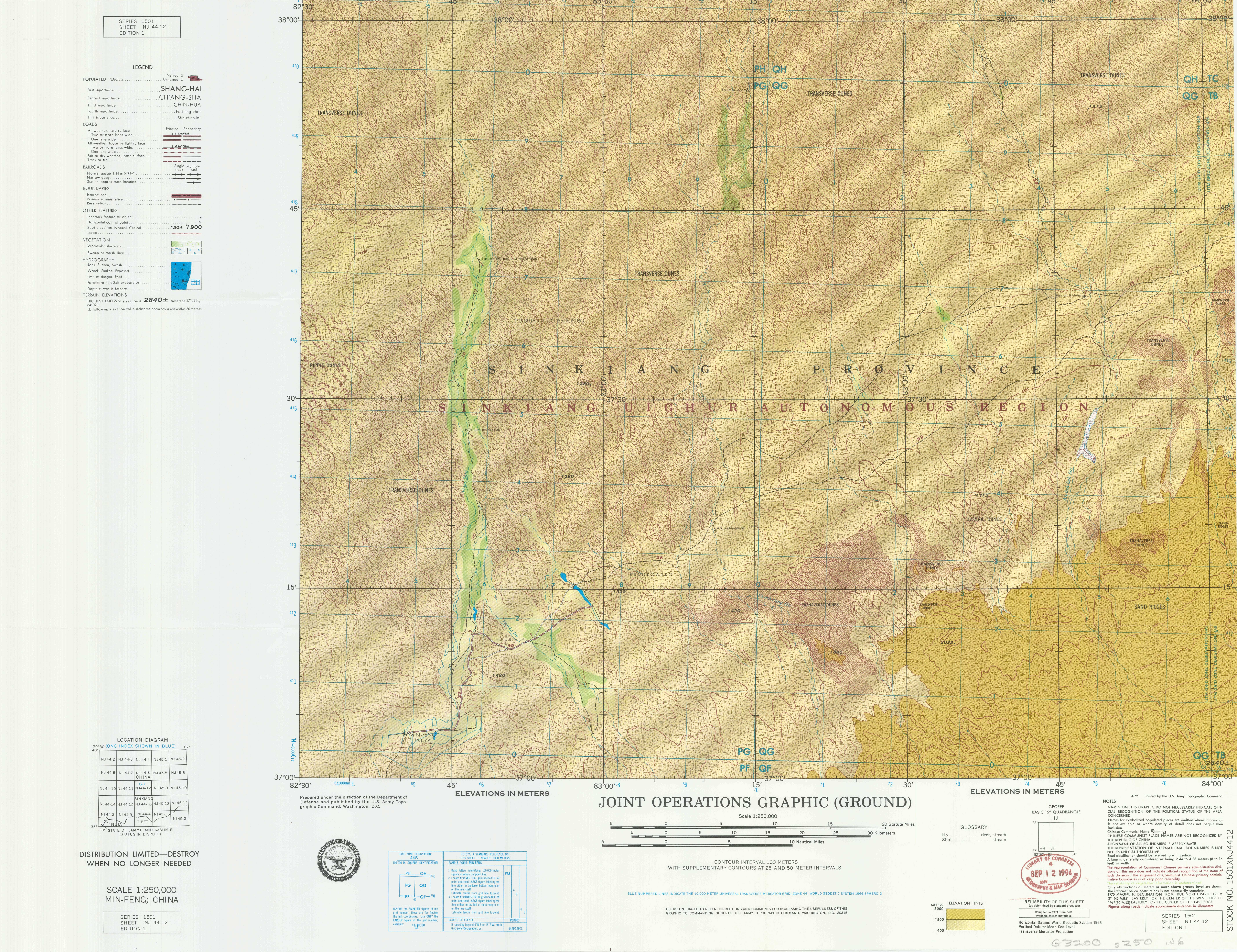 NJ-44-12 Takla Makan Desert